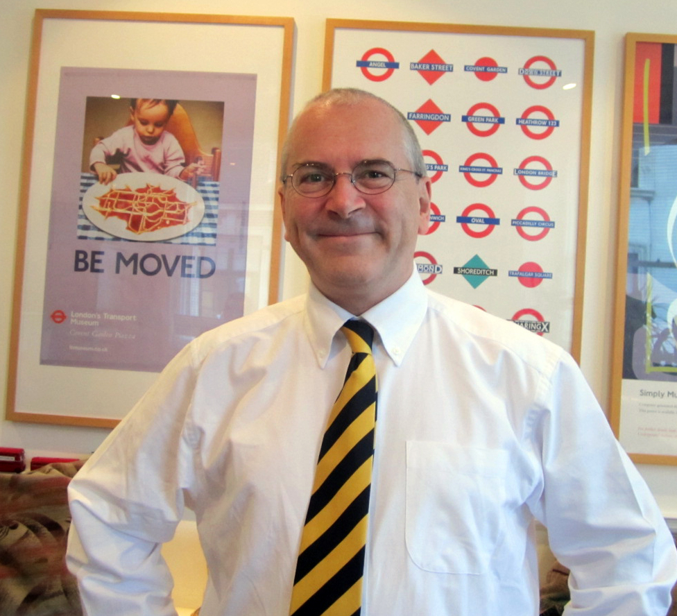 Peter hendy, transport for london commissioner, 2010.